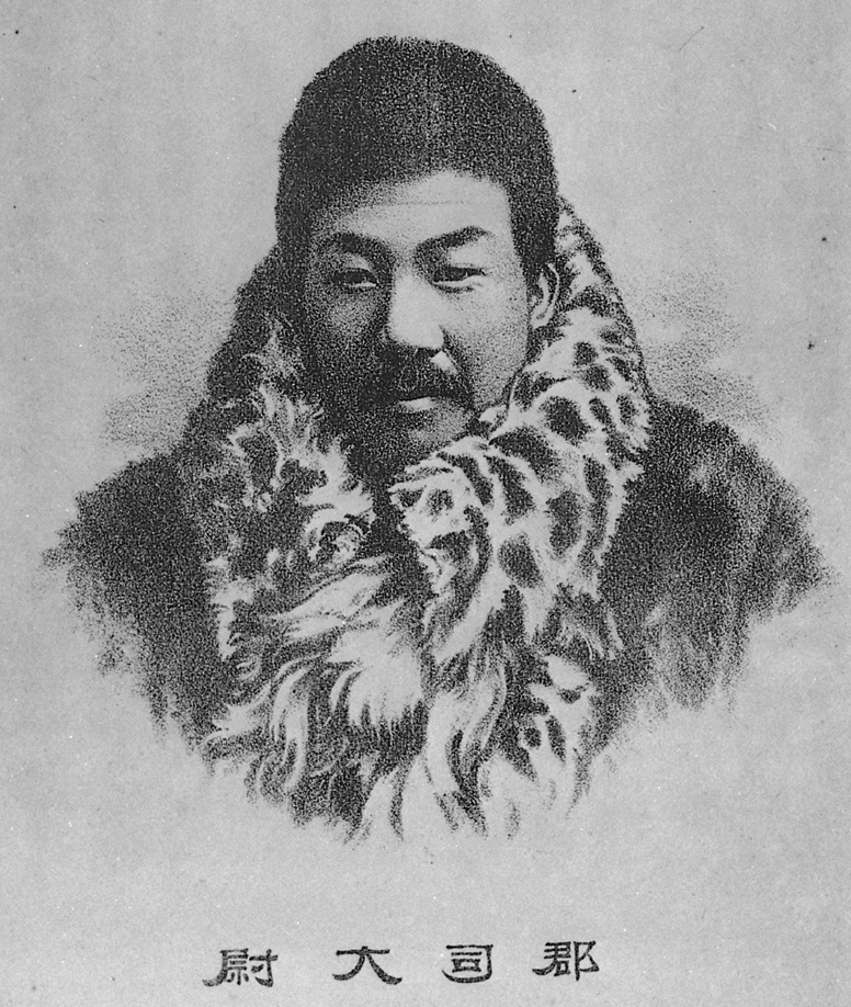 Portrait of Gunji Shigetada (郡司成忠, 1860 – 1924)